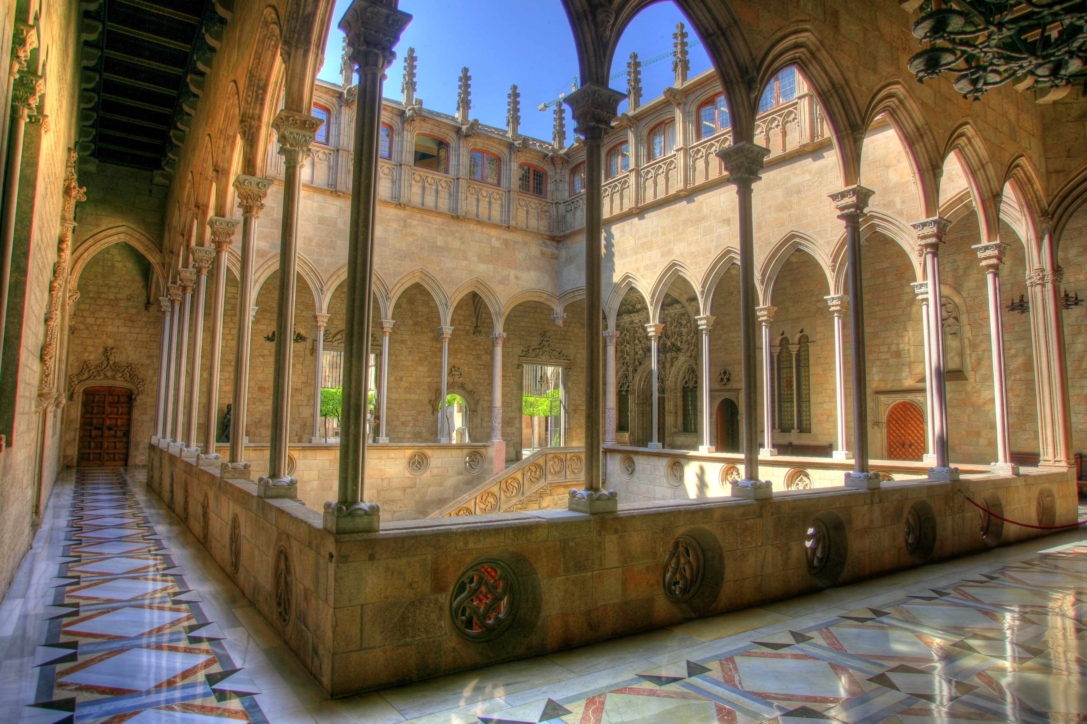 The Palau de la Generalitat houses the offices of the Presidency of the Generalitat de Catalunya